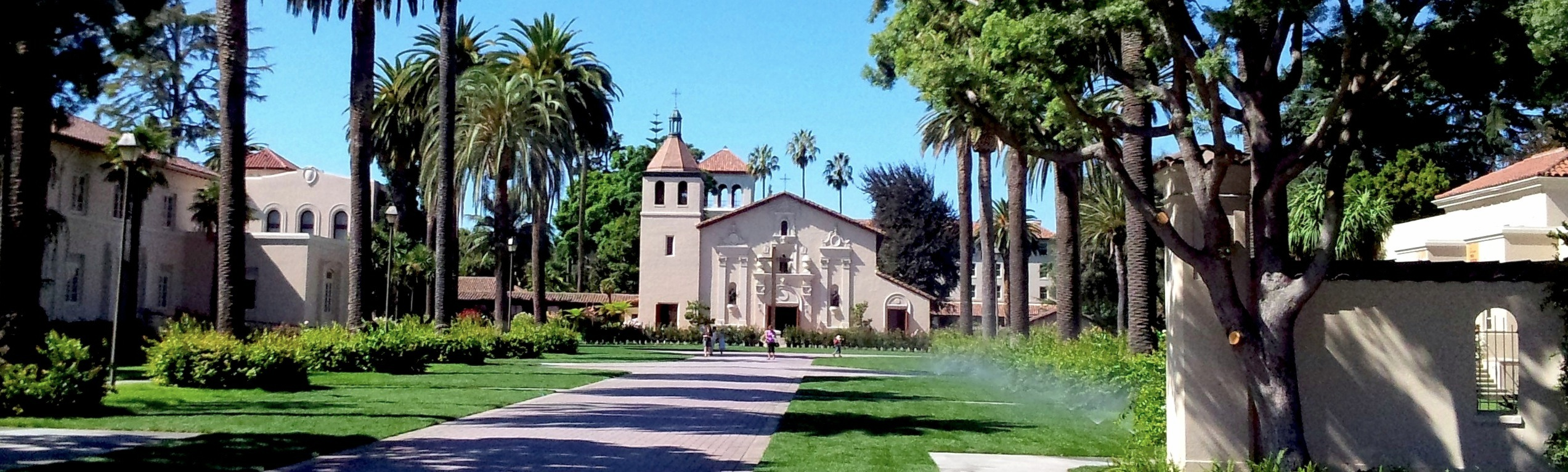 This photo shows the historic Mission Church and Walsh Administration Building at the center of Santa Clara University's Santa Clara, CA campus after the closure of Palm Drive to vehicle traffic in 2013.